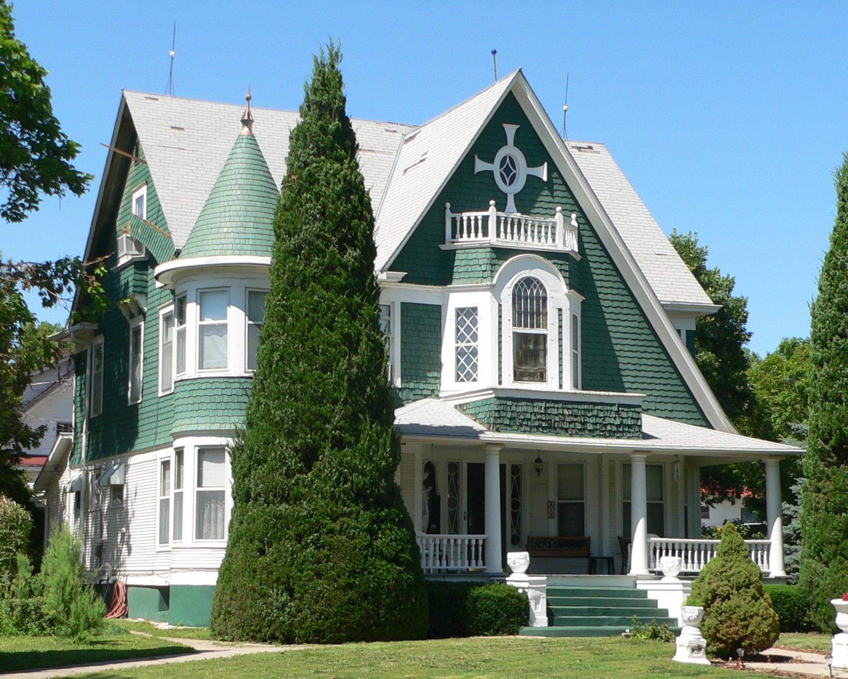 Wallace Warren and Lillian Genevieve Bradshaw Kendall House at 412 E. 7th Street, Superior, Nebraska; seen from the southwest. The Shingle Style house was built in 1898, and is listed in the National Register of Historic Places.